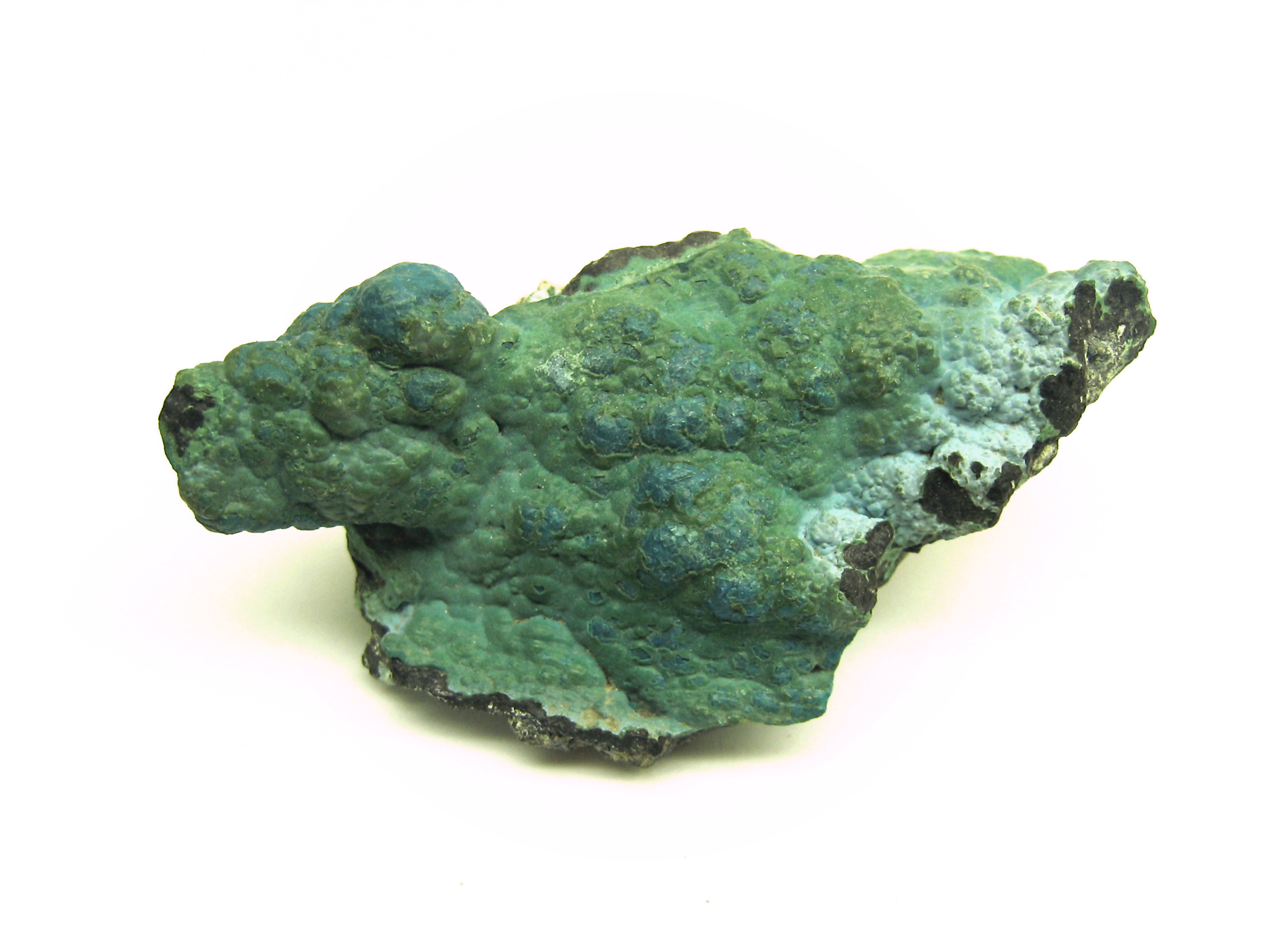 Macro of Malachite (copper ore). It is 4 inches (11 cm) long.